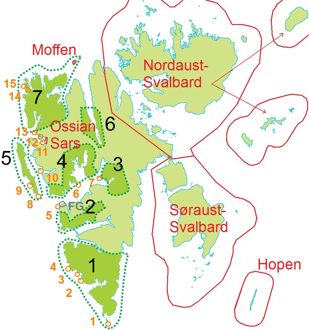 Map of the National Parks of Svalbard, Norway. The parks are *1: Sør-Spitsbergen nasjonalpark; *2: Nordenskiöld Land nasjonalpark; *3: Sassen-Bünsow Land nasjonalpark; *4: Nordre Isfjorden nasjonalpark; *5: Forlandet nasjonalpark; *6: Indre Wijdefjorden nasjonalpark; *7: Nordvest-Spitsbergen nasjonalpark (For legend, Numbers 1 - 15 are Bird sanctuaries. Red borders encircle Nature reserves. FG = Festningen Geotope Area.